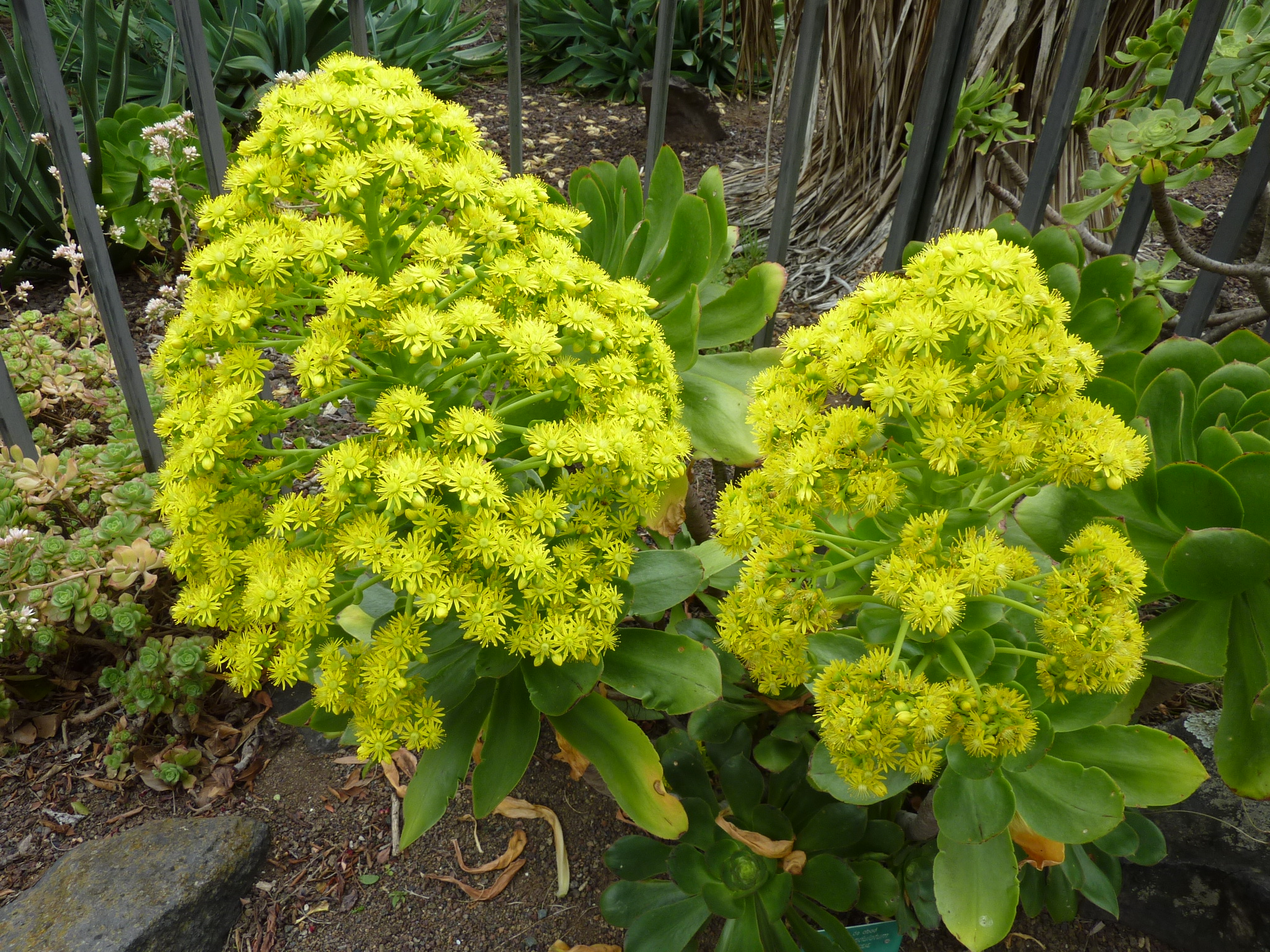 Aeonium undulatum in the Jardín Botánico Canario Viera y Clavijo.